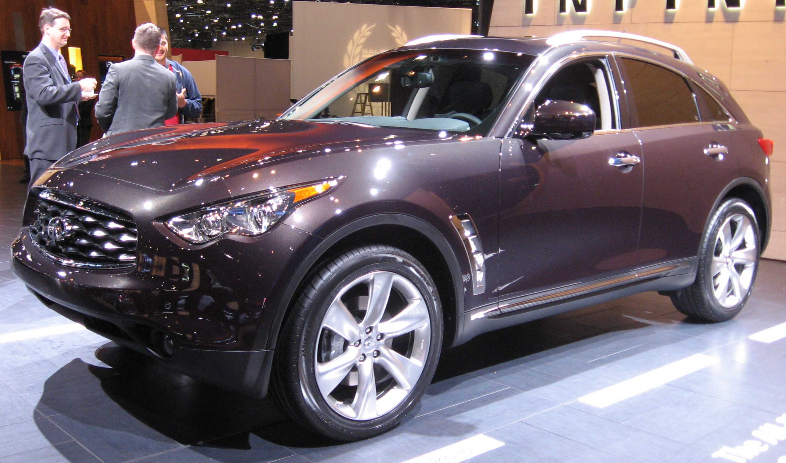 2009 Infiniti FX50 photographed at the 2008 New York Auto Show.